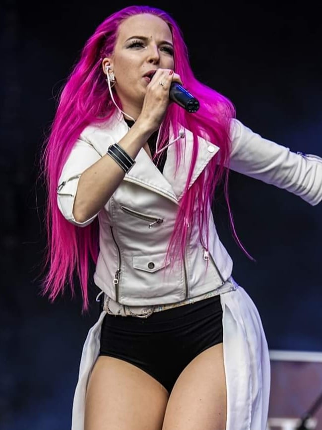 Markéta Morávková at Masters of Rock 12th July 2019.